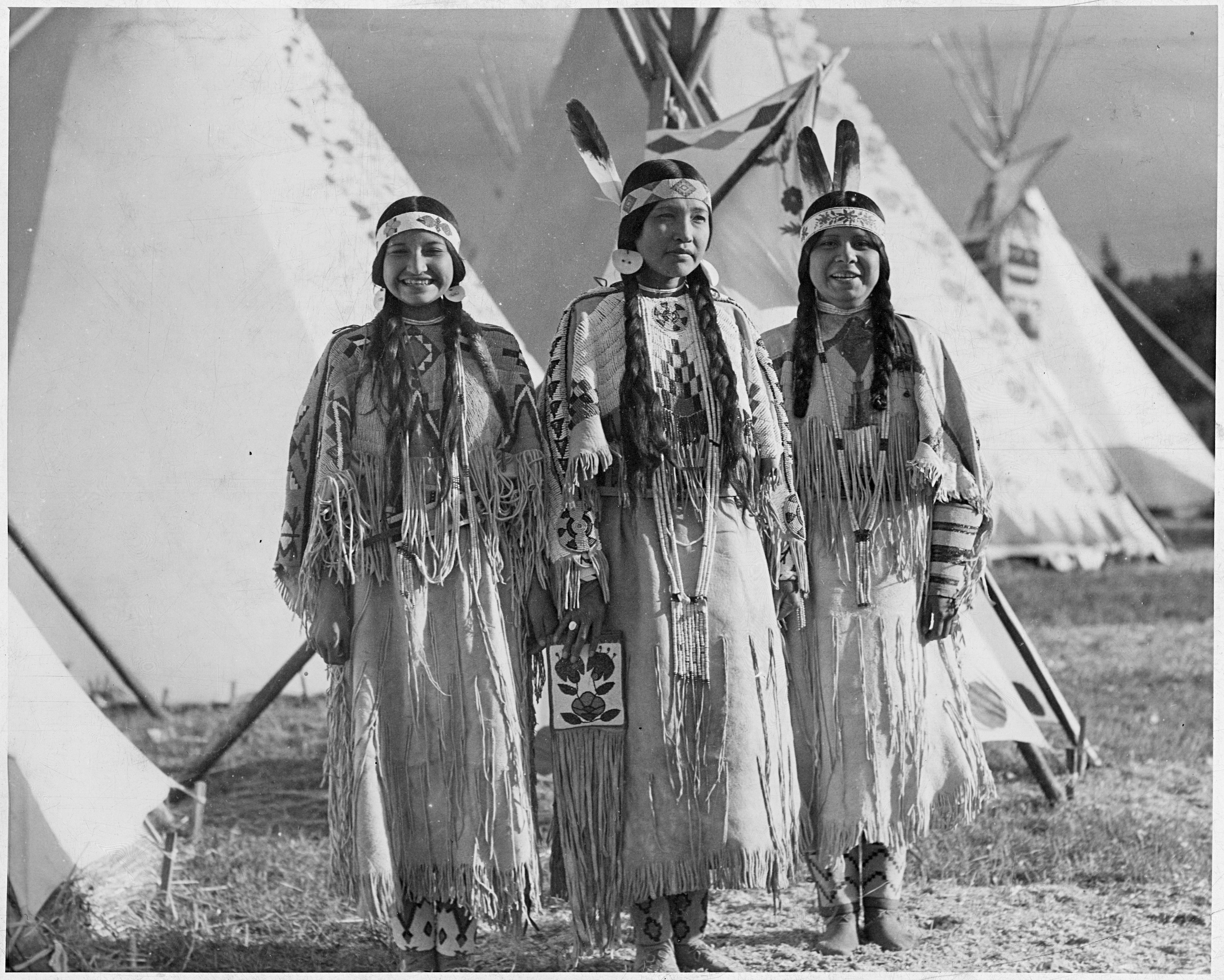 Yakama women. Two of the women are not married (one with the beaded headband the other with the headband and one eagle feather).